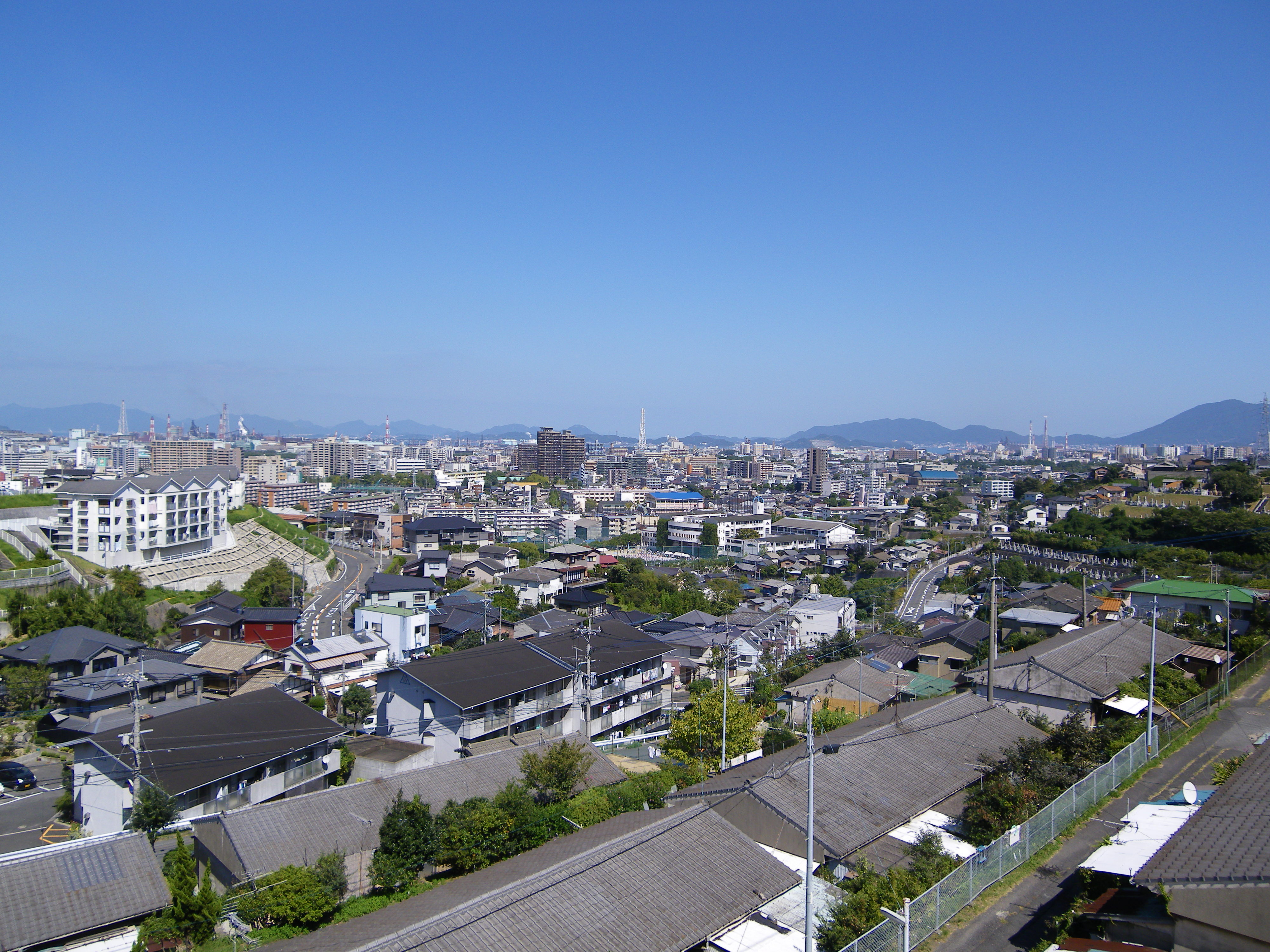 The Cityscape of Tobata,Kitakyushu (from Makiyama,Tobata)